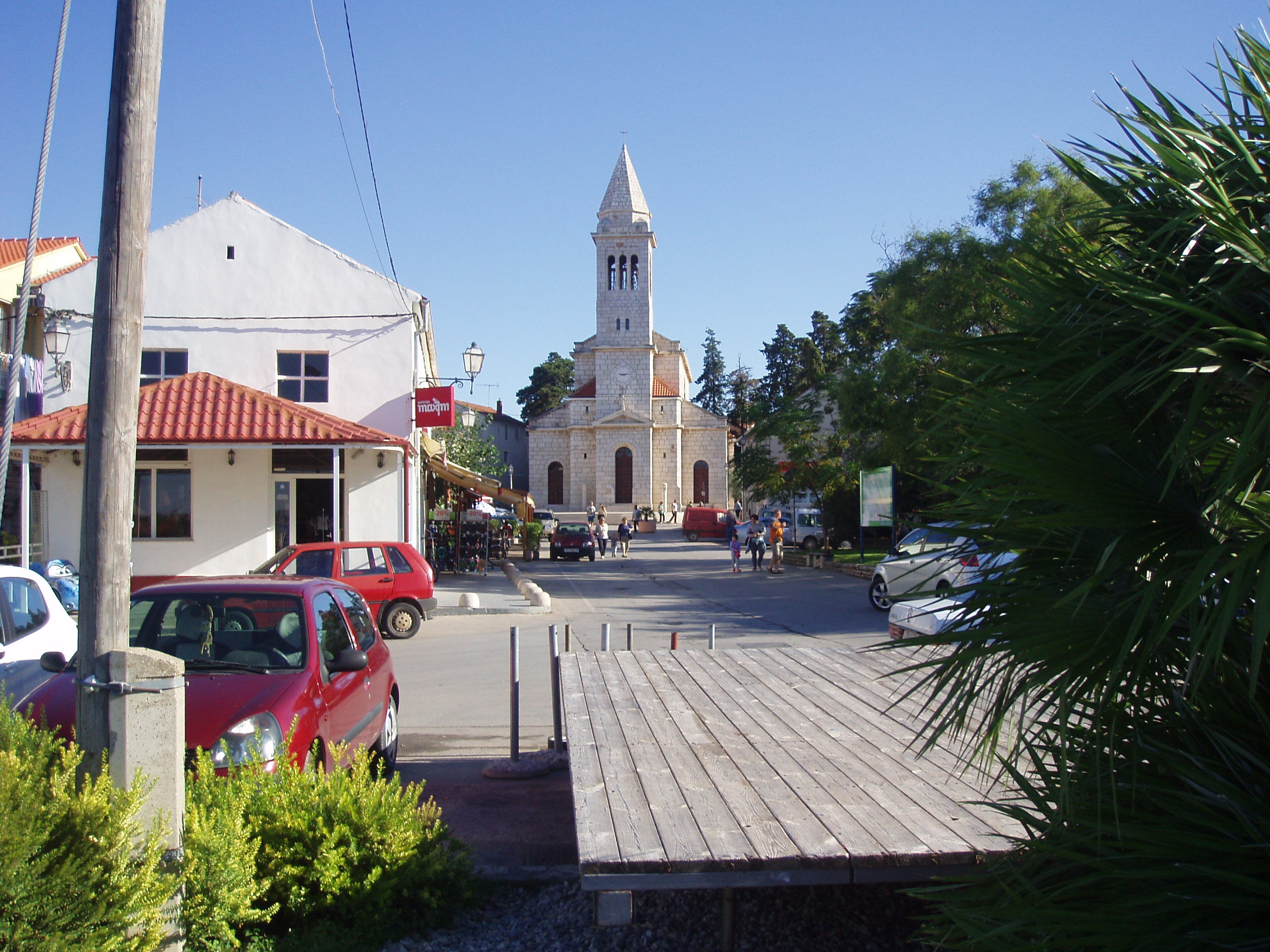 Pakoštane - Church of St.Michael